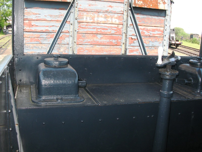 Inside the verranda of Great Western Railway diagram AA15 'Toad' brake van.